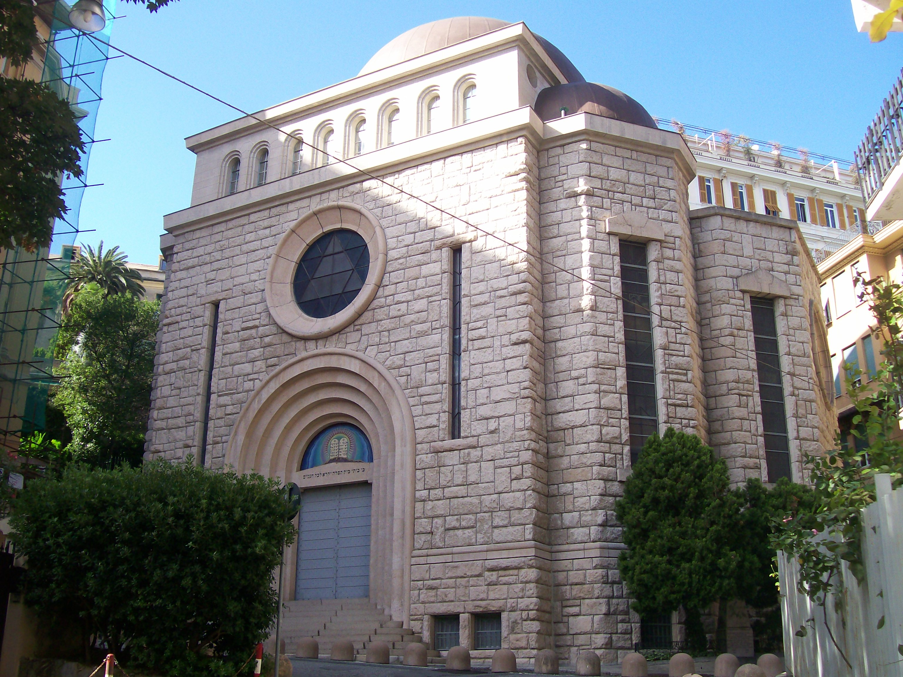 Synagogue of Genoa